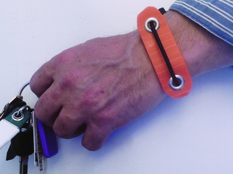 Generic reality clamp in typical configuration